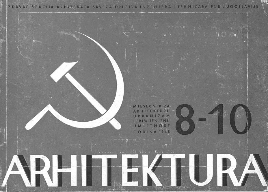 1948 cover of Arhitektura journal published in Zagreb